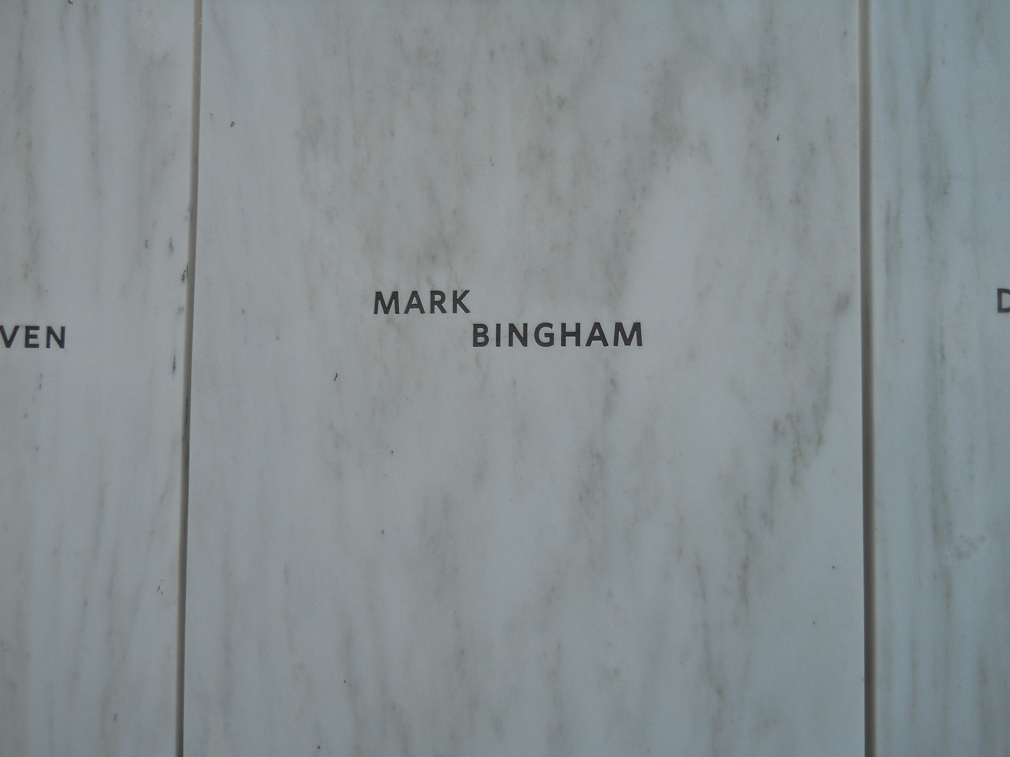 Flight 93 National Memorial, West of Sky Line Road, Shanksville vicinity Stonycreek Township